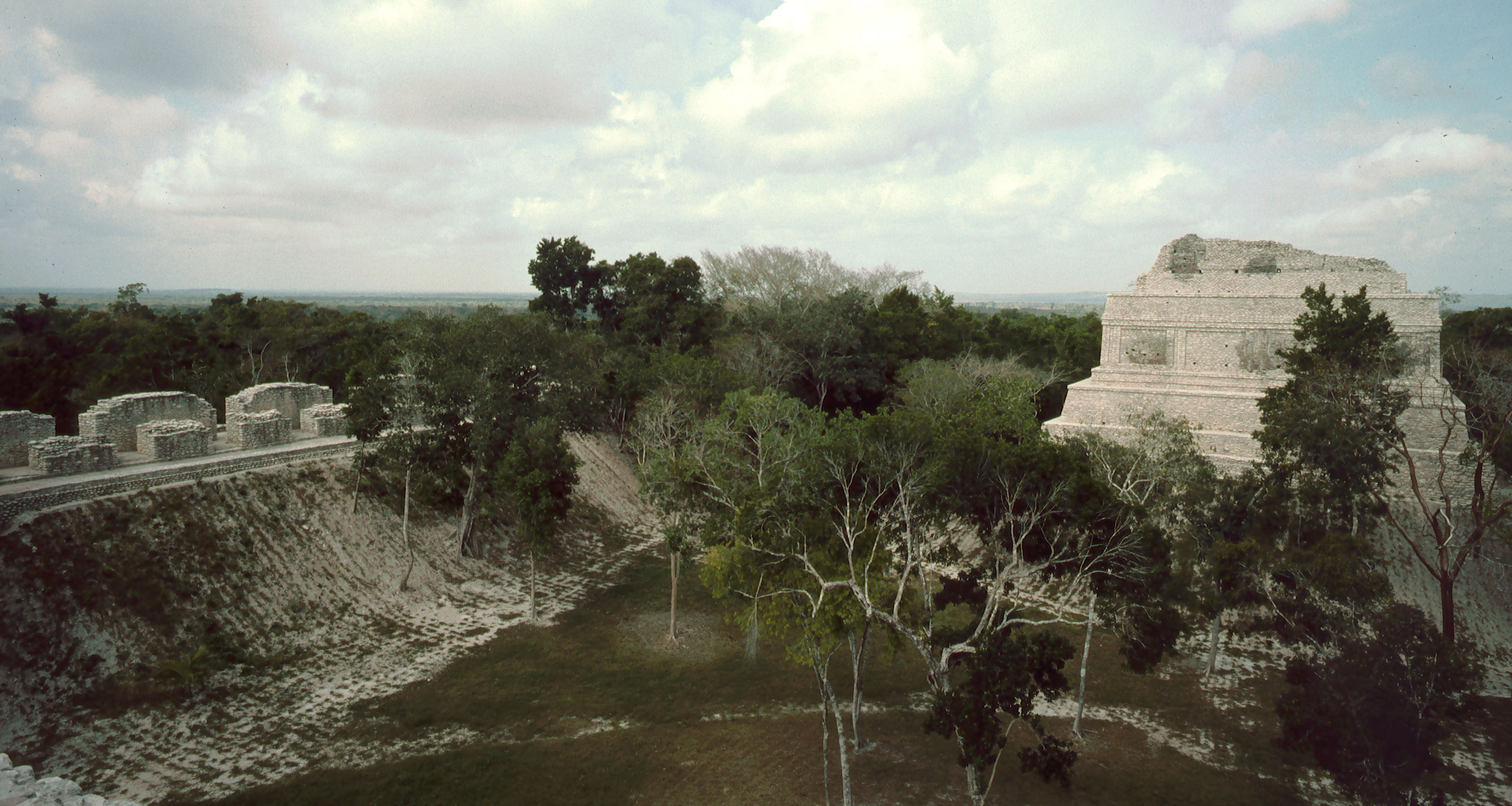 Dzibanche, Quintana Roo, Mexico.